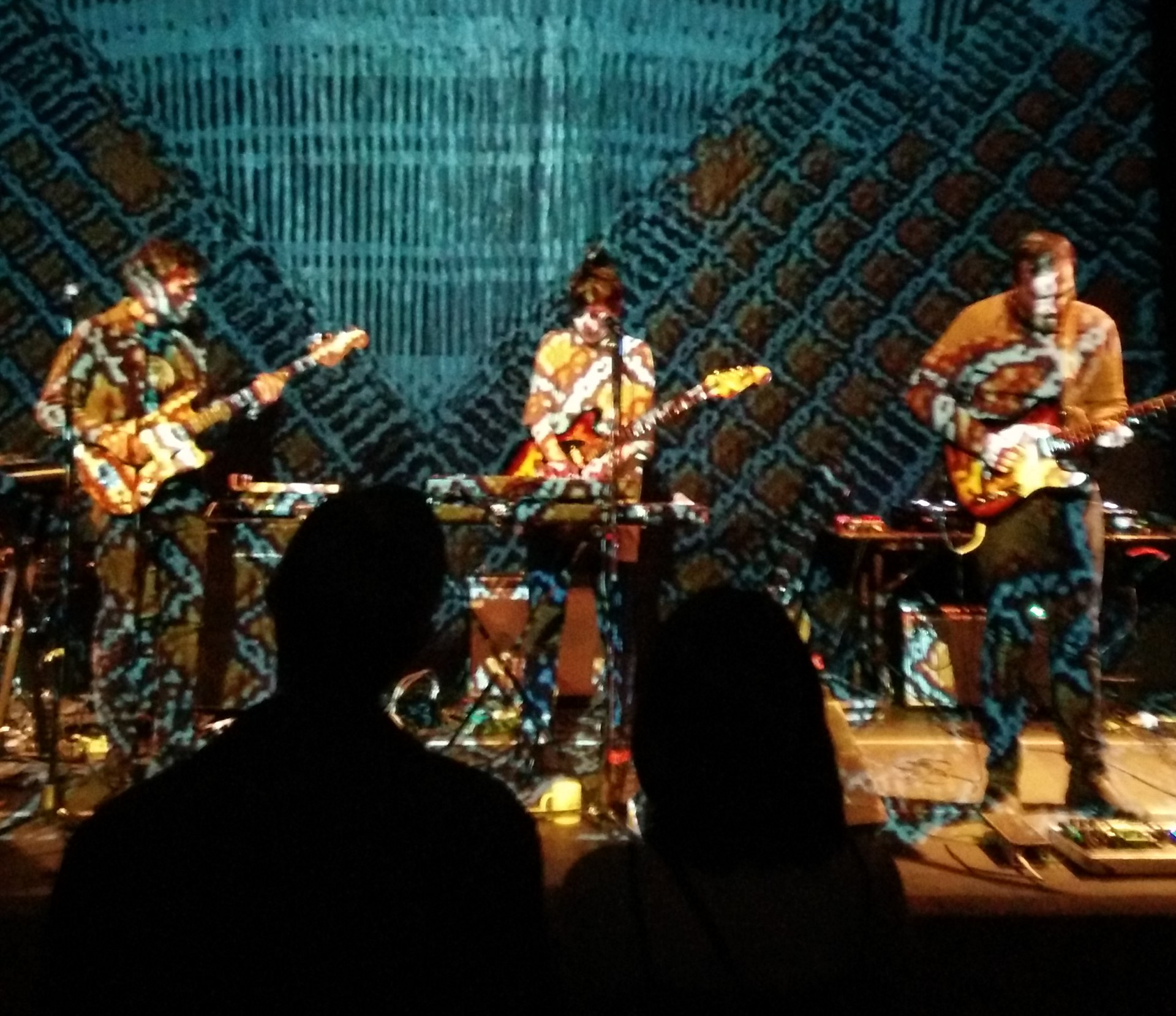 L CON performing at Long Winter in Toronto, Ontario on February 4, 2017. (Left to right: Andrew Collins, Lisa Conway and Jordan Howard)